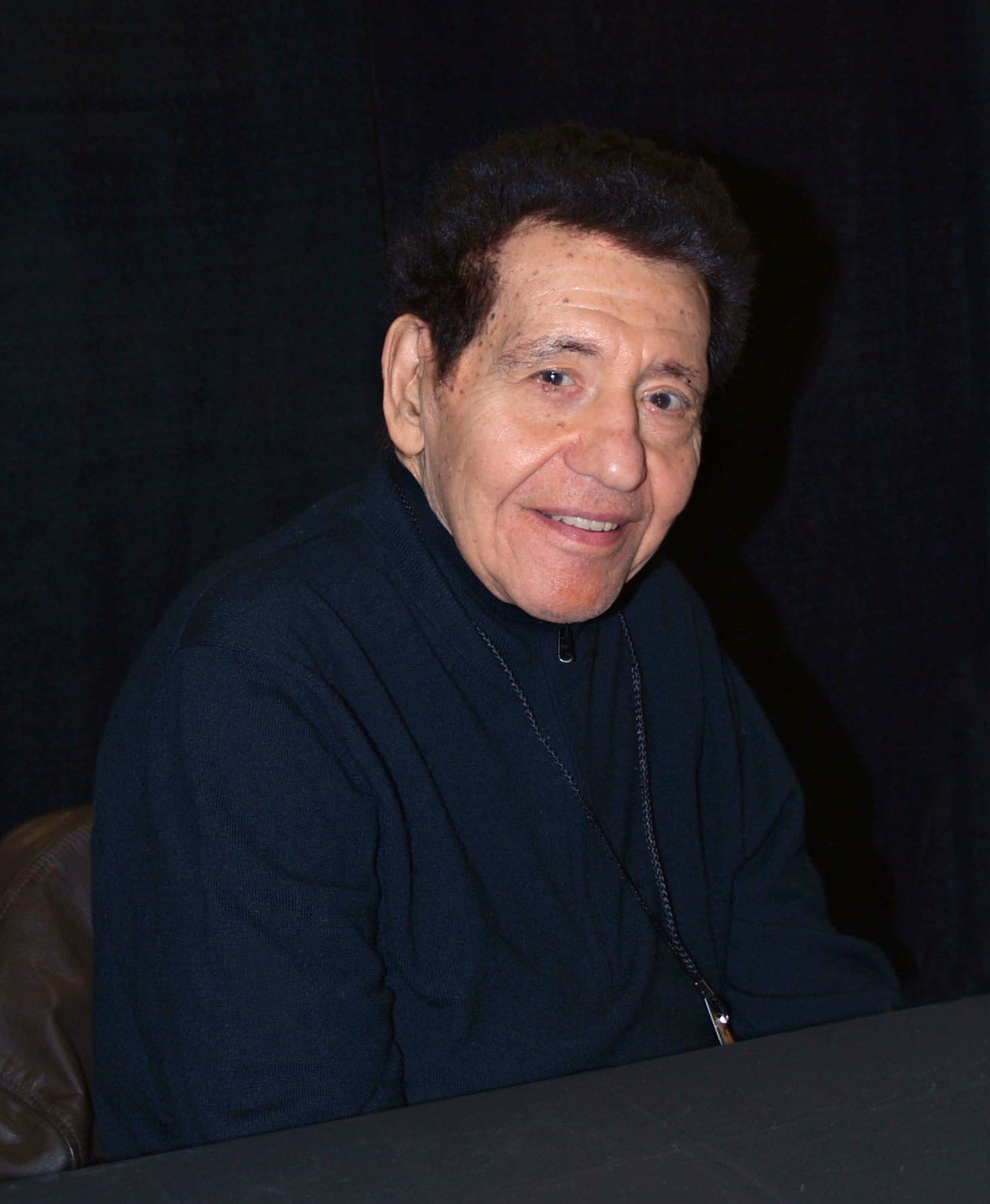 Illustrator Basil Gogos at the Meadowlands Exposition Center in Secaucus, New Jersey on April 11, 2015, Day 1 of the 2015 East Coast Comicon. This photo was created by Luigi Novi. It is not in the public domain, and use of this file outside of the licensing terms is a copyright violation.